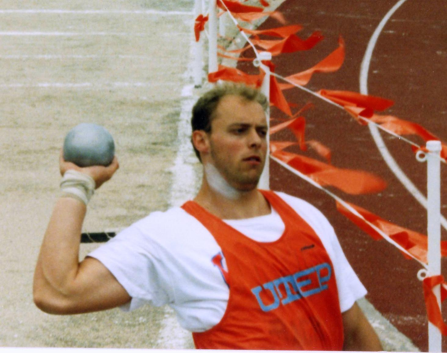 Kjell Ove Hauge, winner of shot put at the 1994 Texas Relays